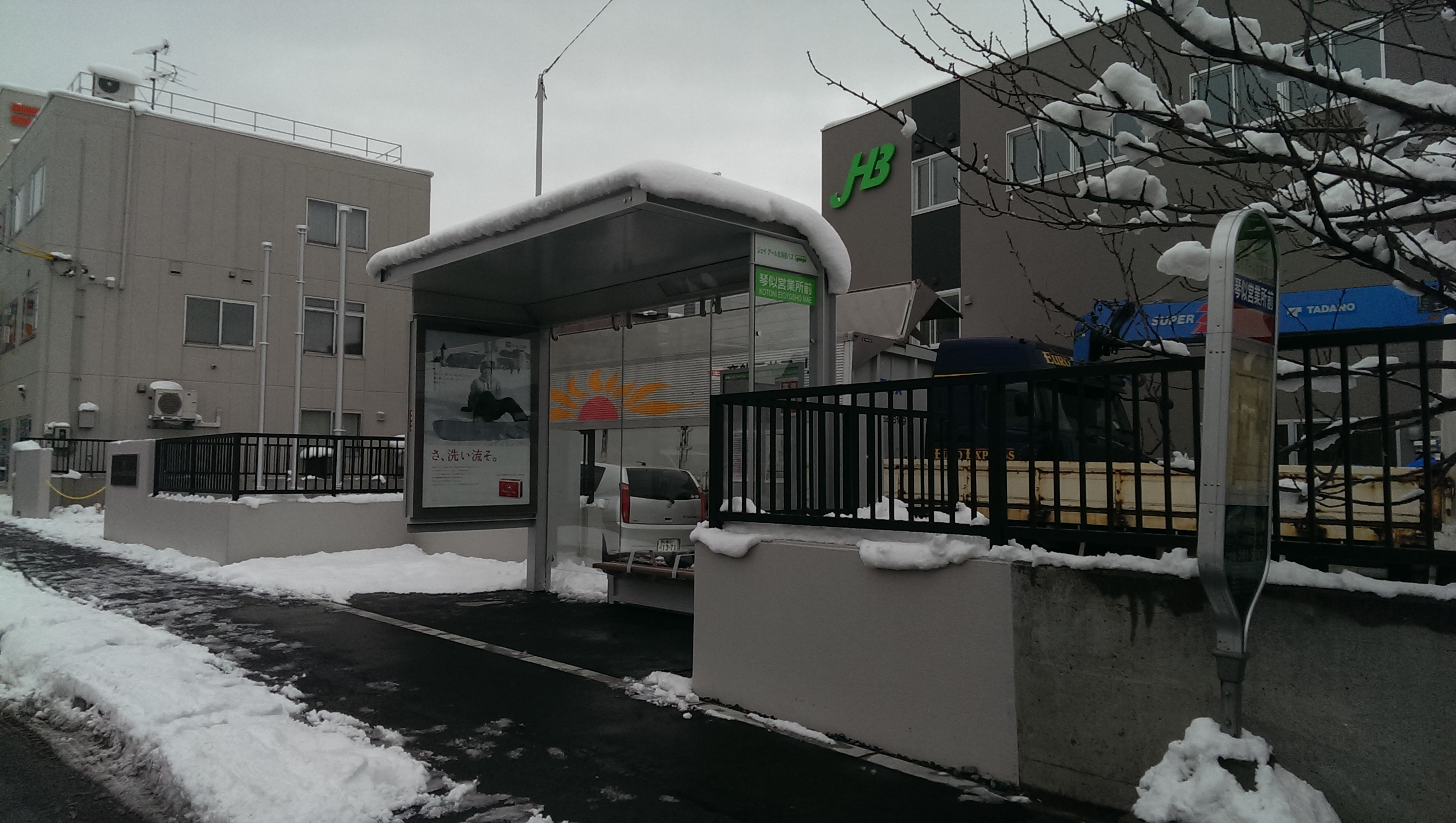 JR Hokkaido Bus Kotoni Depot and the new Headquarters building